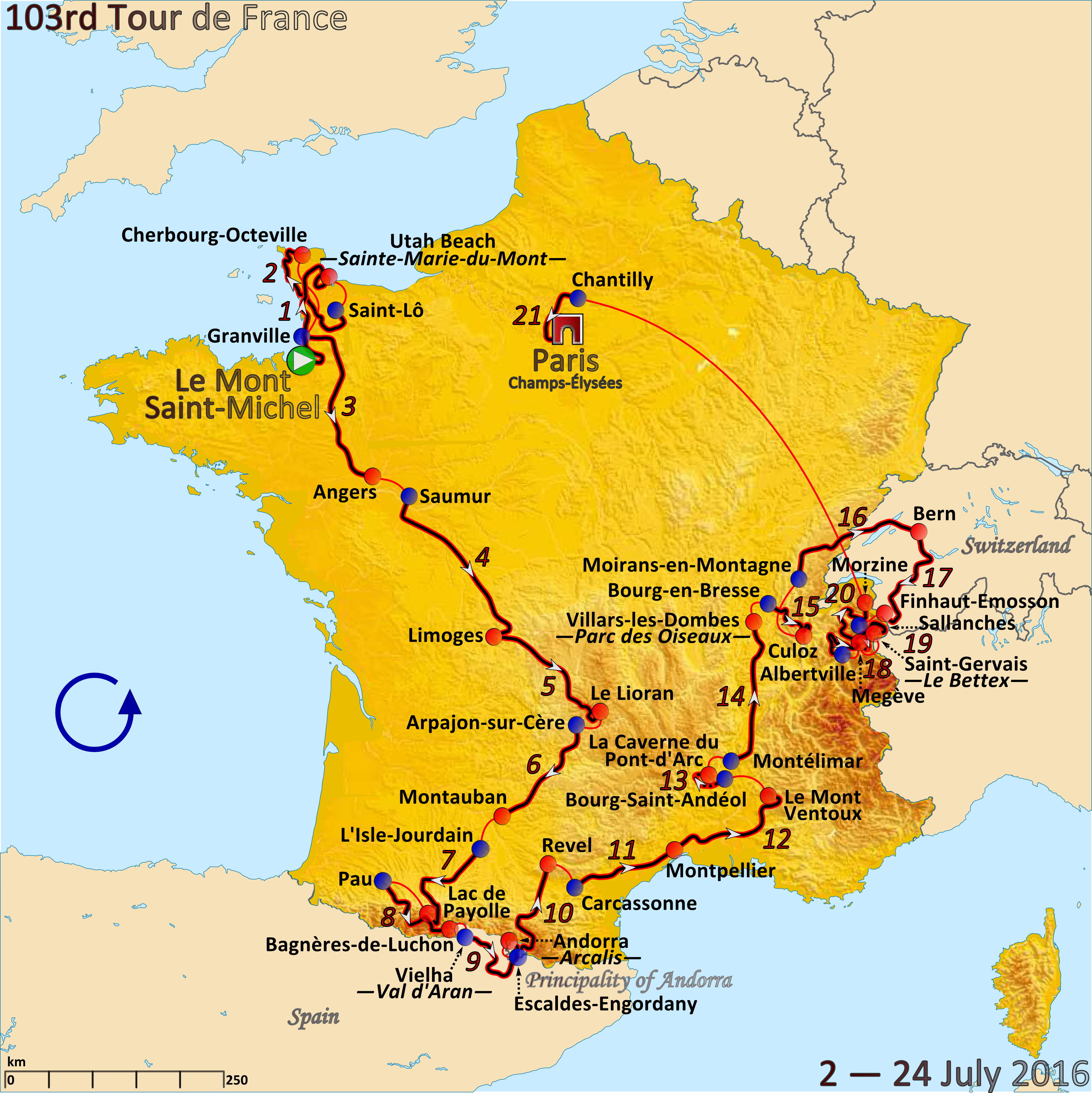 Map of the 2016 Tour de France created in Inkscape based on official stage maps.